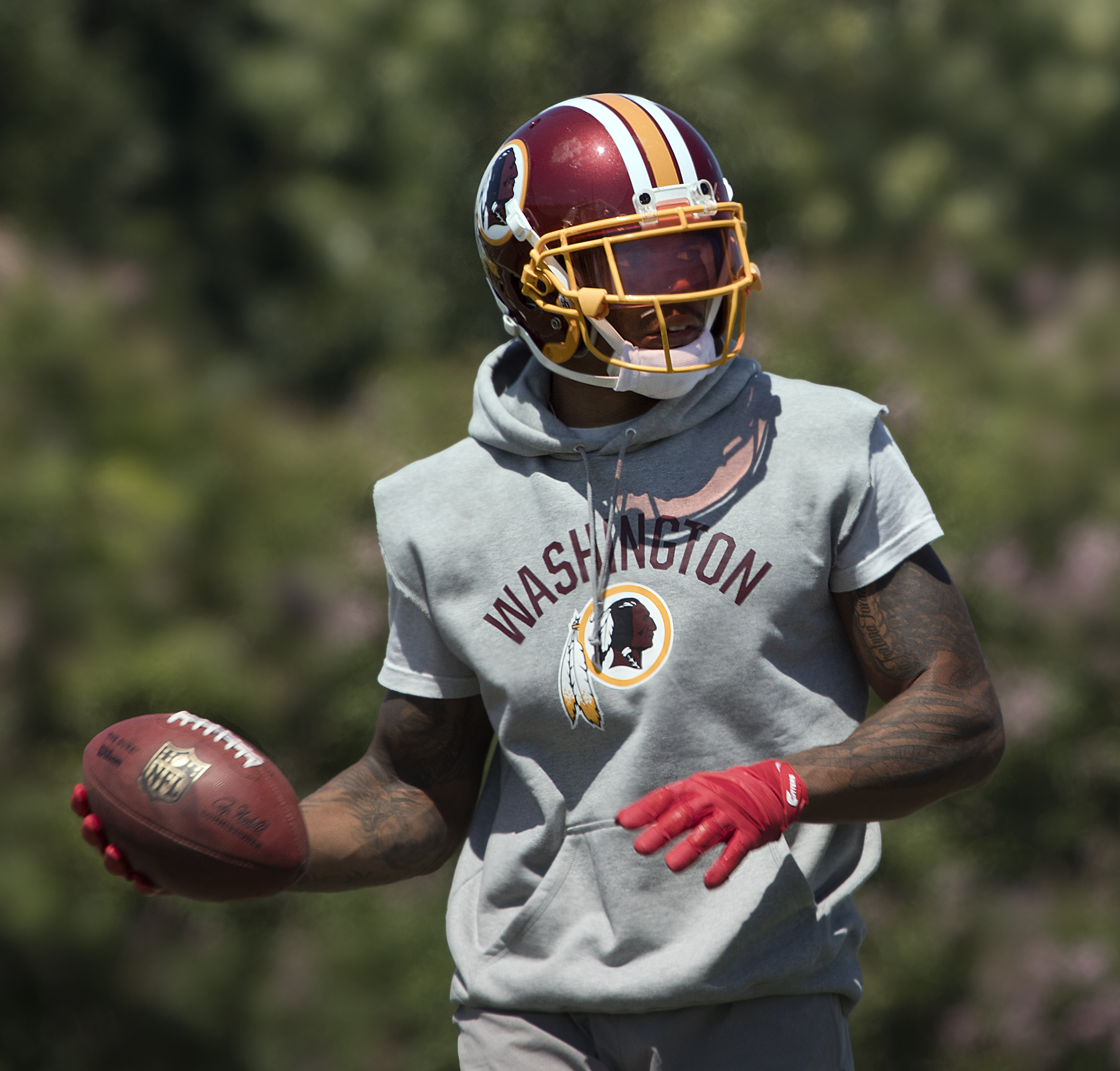 Washington Redskins wide receiver, Terrelle Pryor, at training camp on July 31, 2017.